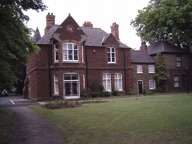 Museum -formerly Brumby vicarage designed by James Fowler, 1874 and 1879